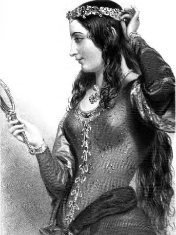 Eleanor of Provence